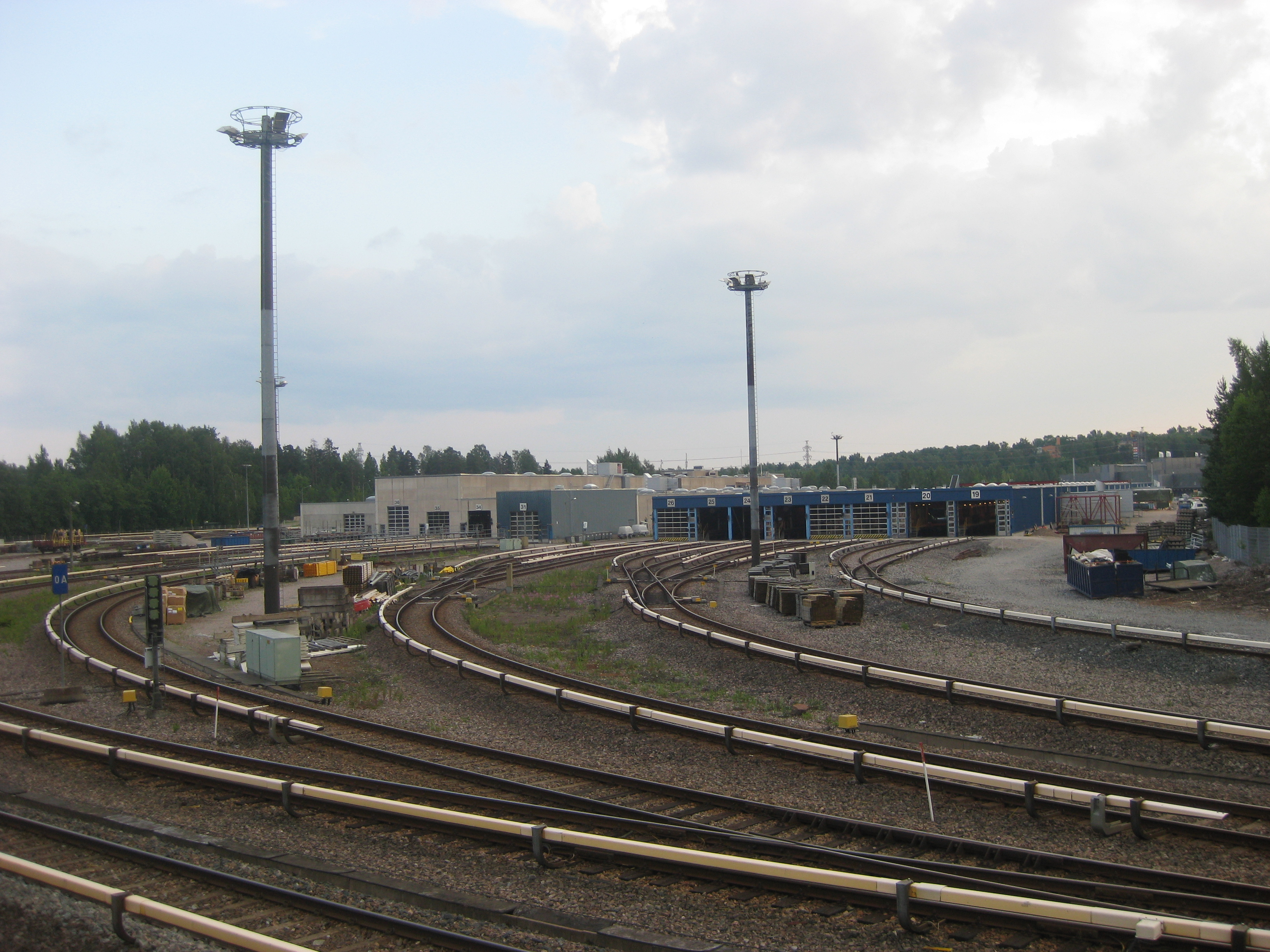 Helsinki Metro depot in Roihupellon teollisuusalue, Helsinki